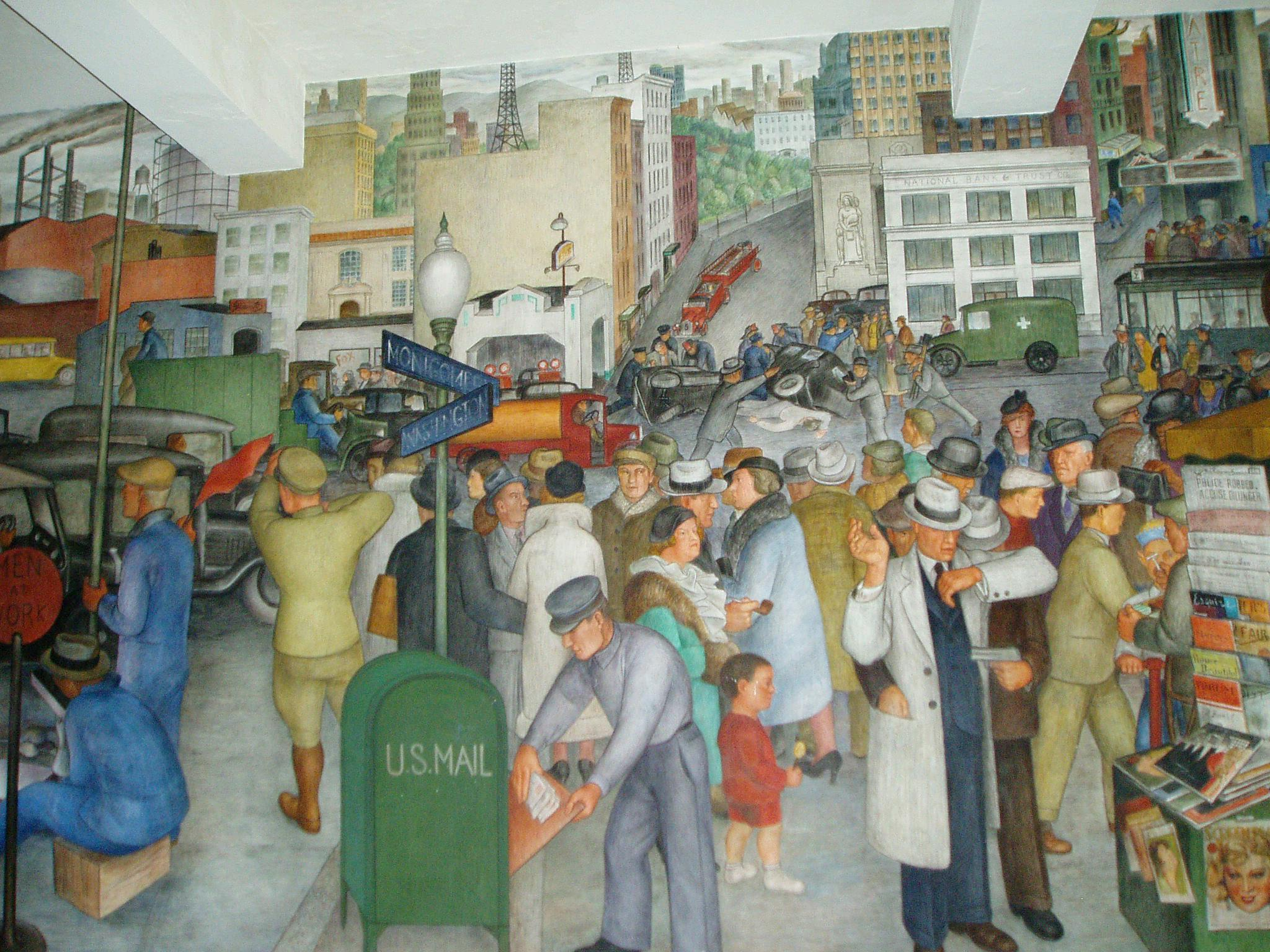 WPA mural in Coit Tower, San Francisco Coit Tower Mural. Notice the robbery on the bottom right, and the car accident in the center